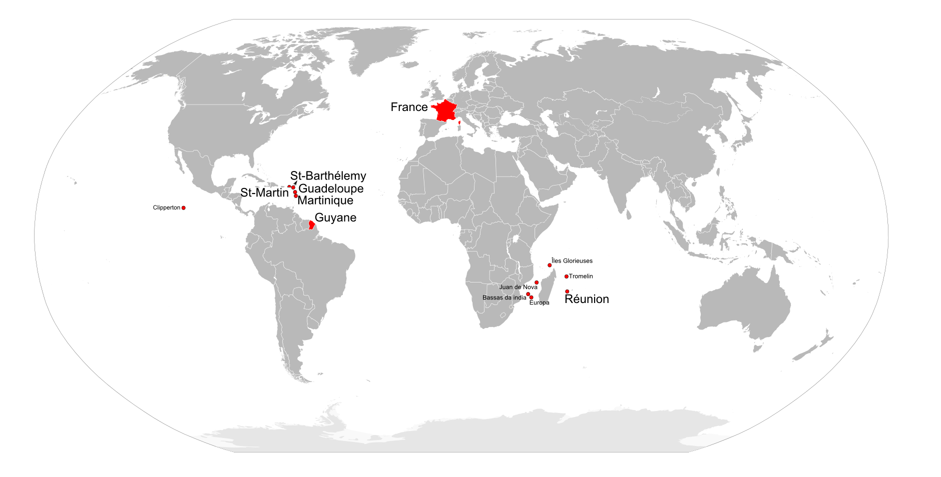 In red, where are the postage stamps of France are used on posted mail between January 1997 (Mayotte's philatelic autonomy) and February 2007 (Scattered islands linked to TAAF). Big size names : territories with permanent population. Small size names : territories with non-permanent population, mainly scienfitic (used of stamps of France quite hypothetical, but not impossible (covers reproduced in Pierre Couesnon's article, "Les îles éparses : un étrange rattachement aux TAAF", Timbres magazine 61, October 2005, pages 73-76). Created from the 9 January 2007 04:37 version of Image:BlankMap-World6.svg.